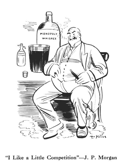 "I Like a Little Competition" - J.P. Morgan by Art Young. Cartoon depicting J.P. Morgan mixing a little competition/soda water with his monopoly/whiskey. First published in The Masses, February 1913. At the Pujo Committee, December 19, 1912, Morgan was asked by Samuel Untermyer if he disliked competition and replied "I like a little competition."